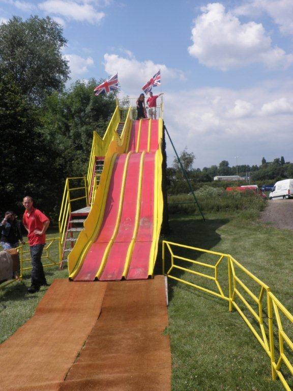 A 3 lane slide sometimes called astroglide or cascade slide.